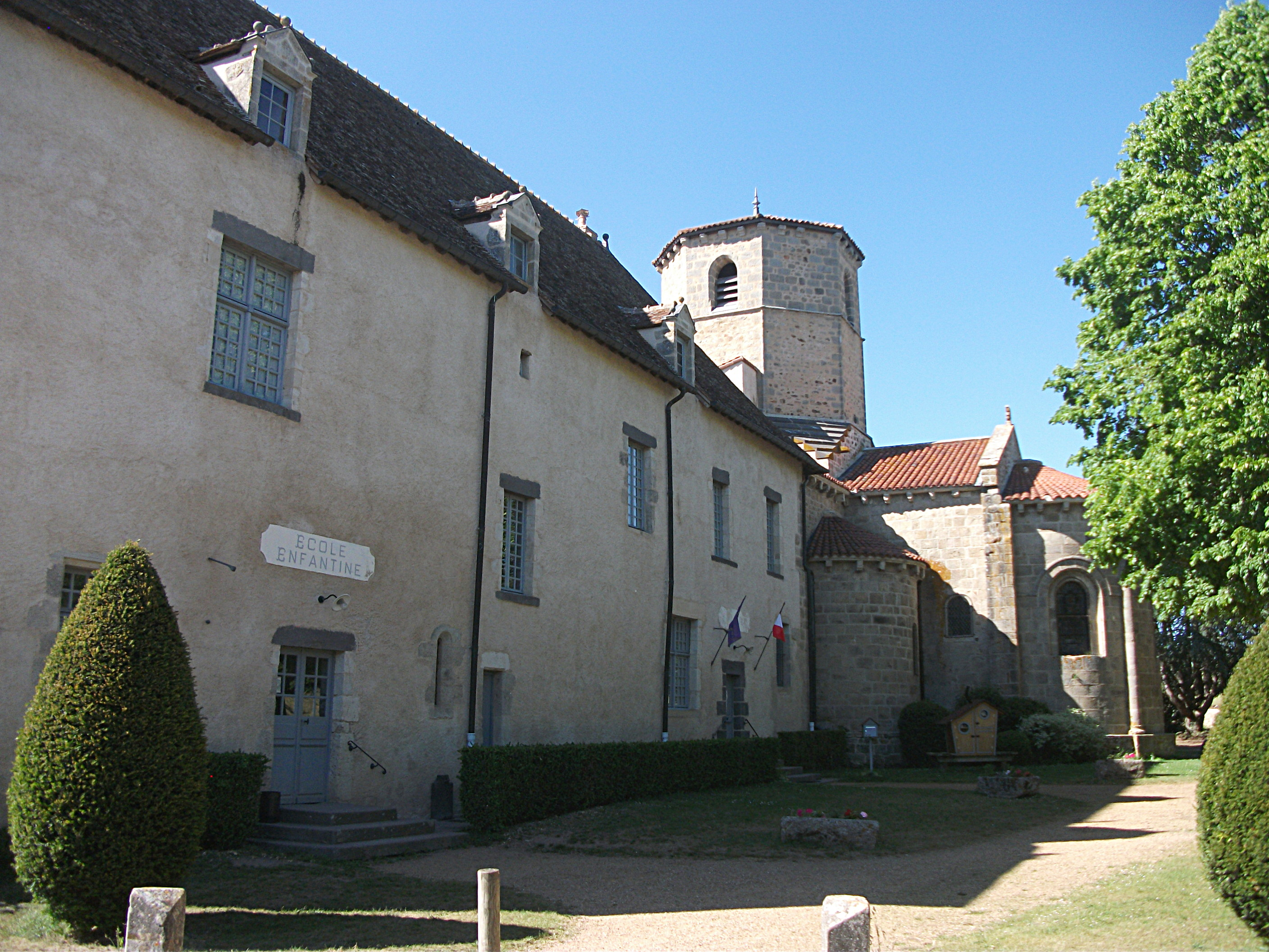 School, town hall and church of Saint-Hilaire-la-Croix, Puy-de-Dôme, Auvergne-Rhône-Alpes, France. [18448]